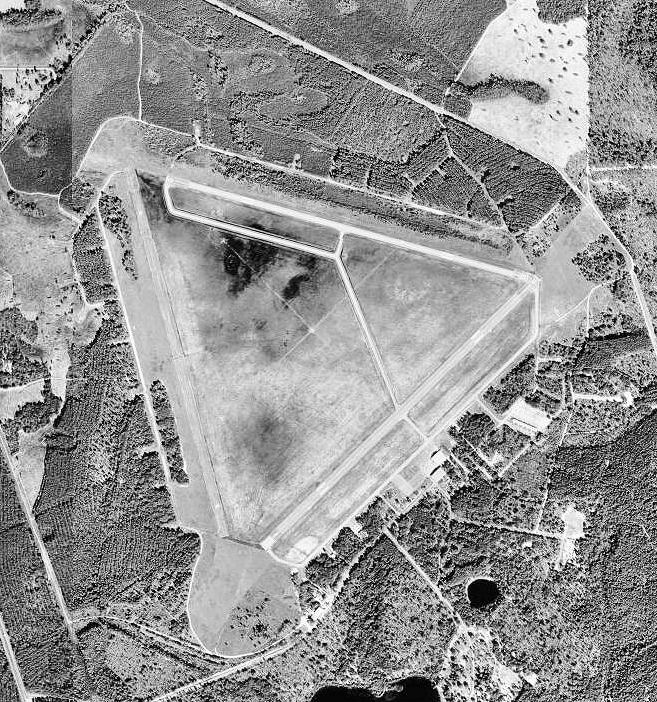 USGS orthophoto of Keystone Airpark, Florida